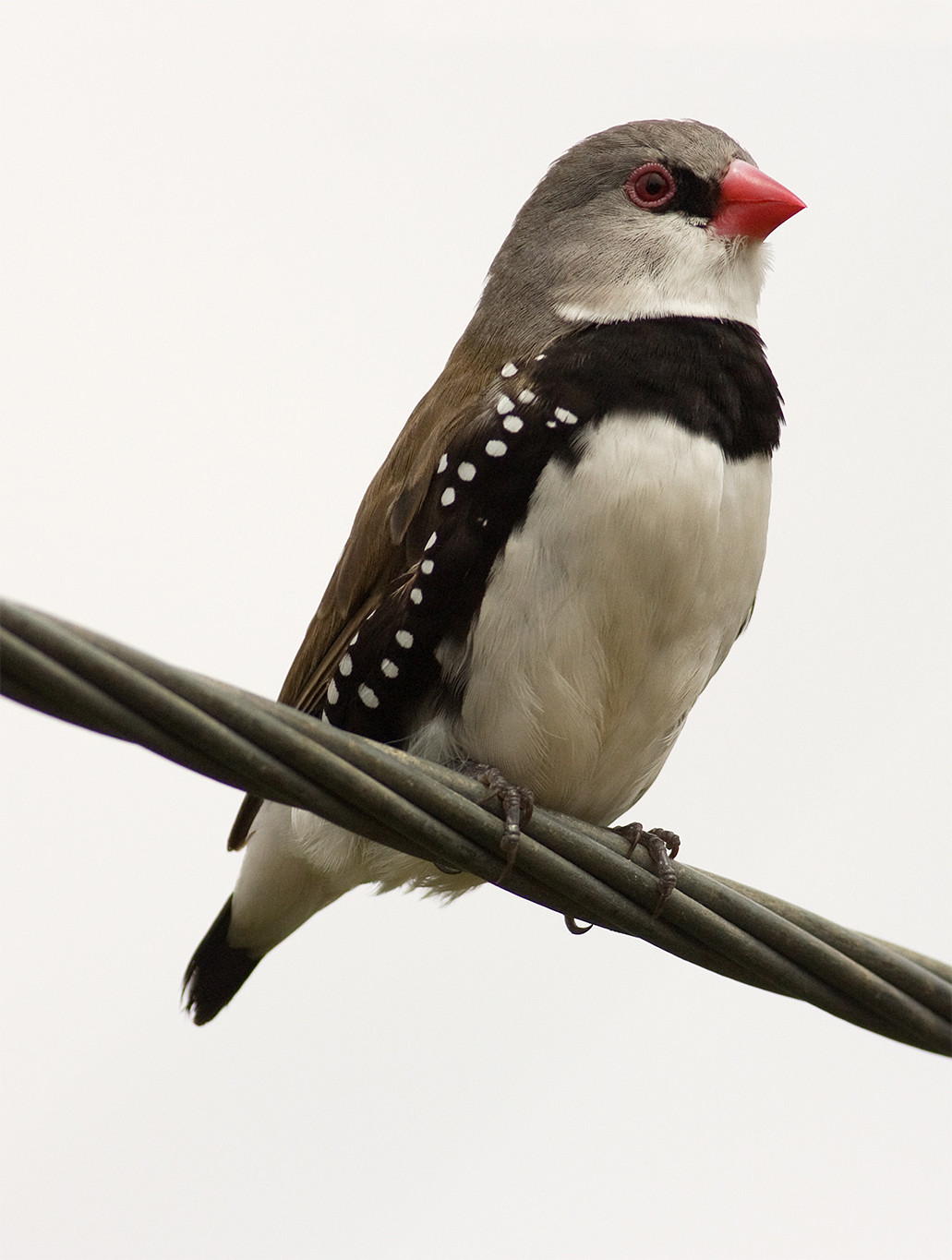 Diamand Firetail (Stagonopleura guttata), Grampians National Park, Victoria, Australia